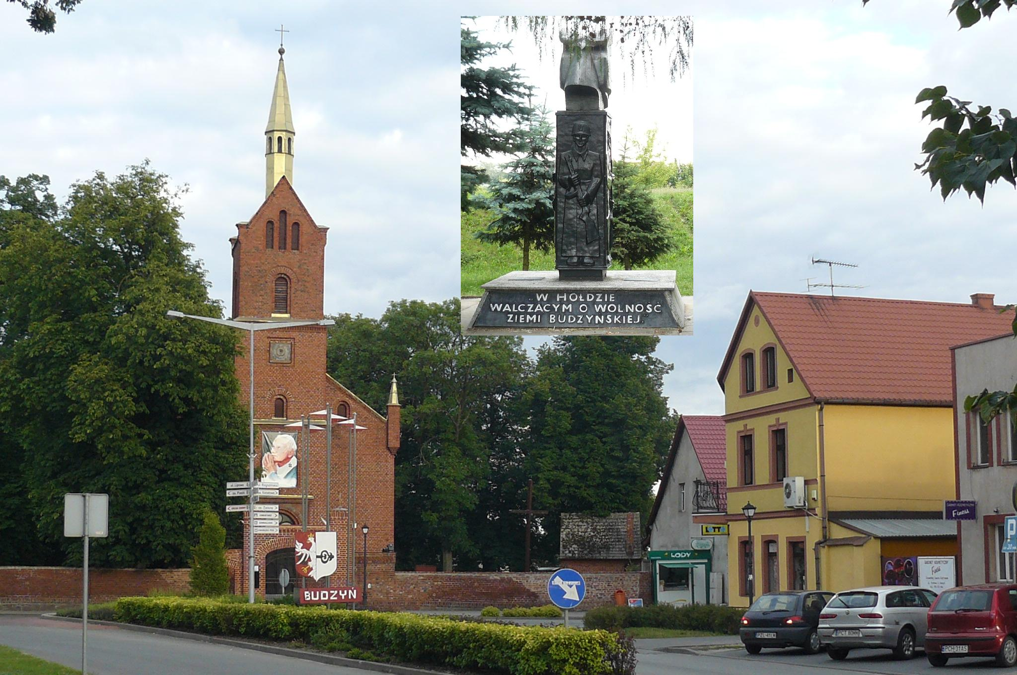 Center of Budzyn - PL.